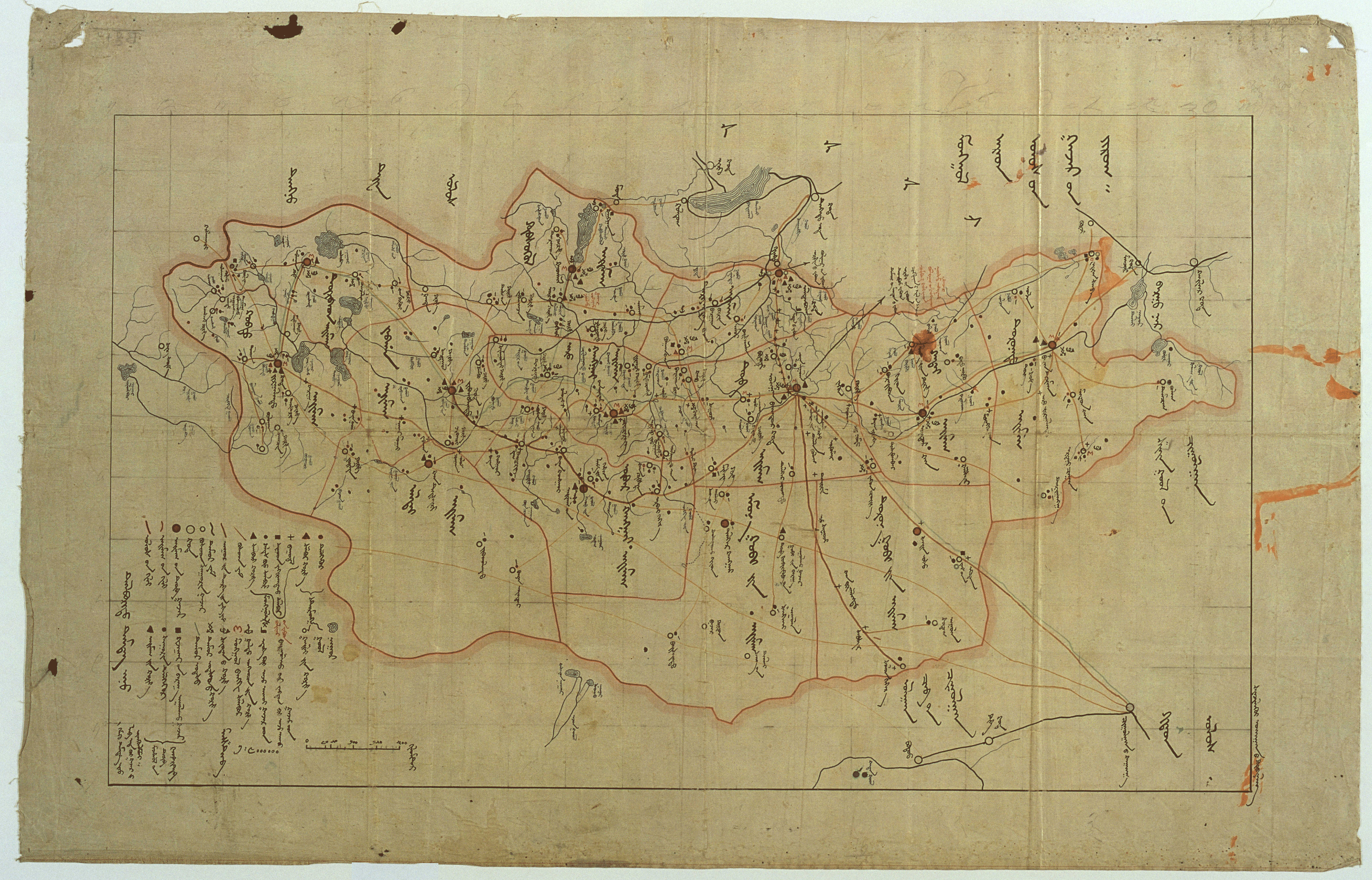 Map of Mongolia, created in 1931 or 1932. Material is canvas, original size is 40x70 cm. See also Kamimura's article on Mongolian manuscript maps, p.12.